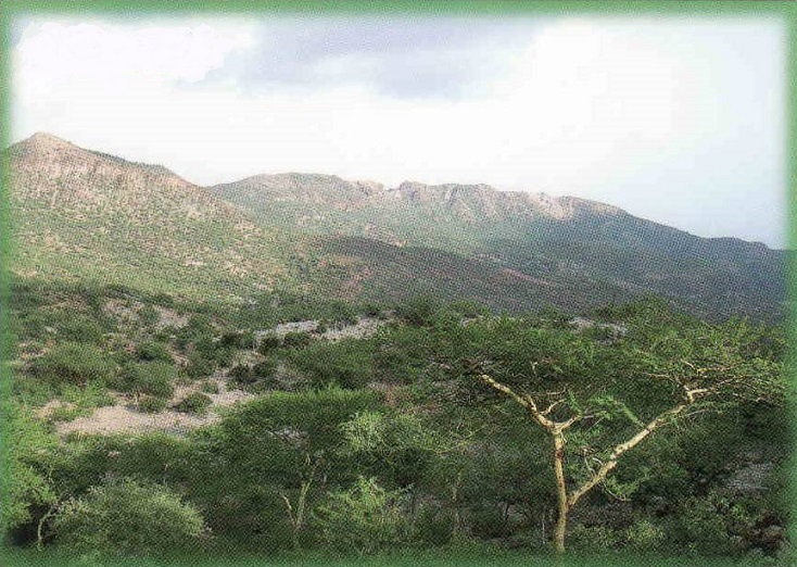 View of the Mabla Mountains, Djibouti. Postcard from c. 1980.